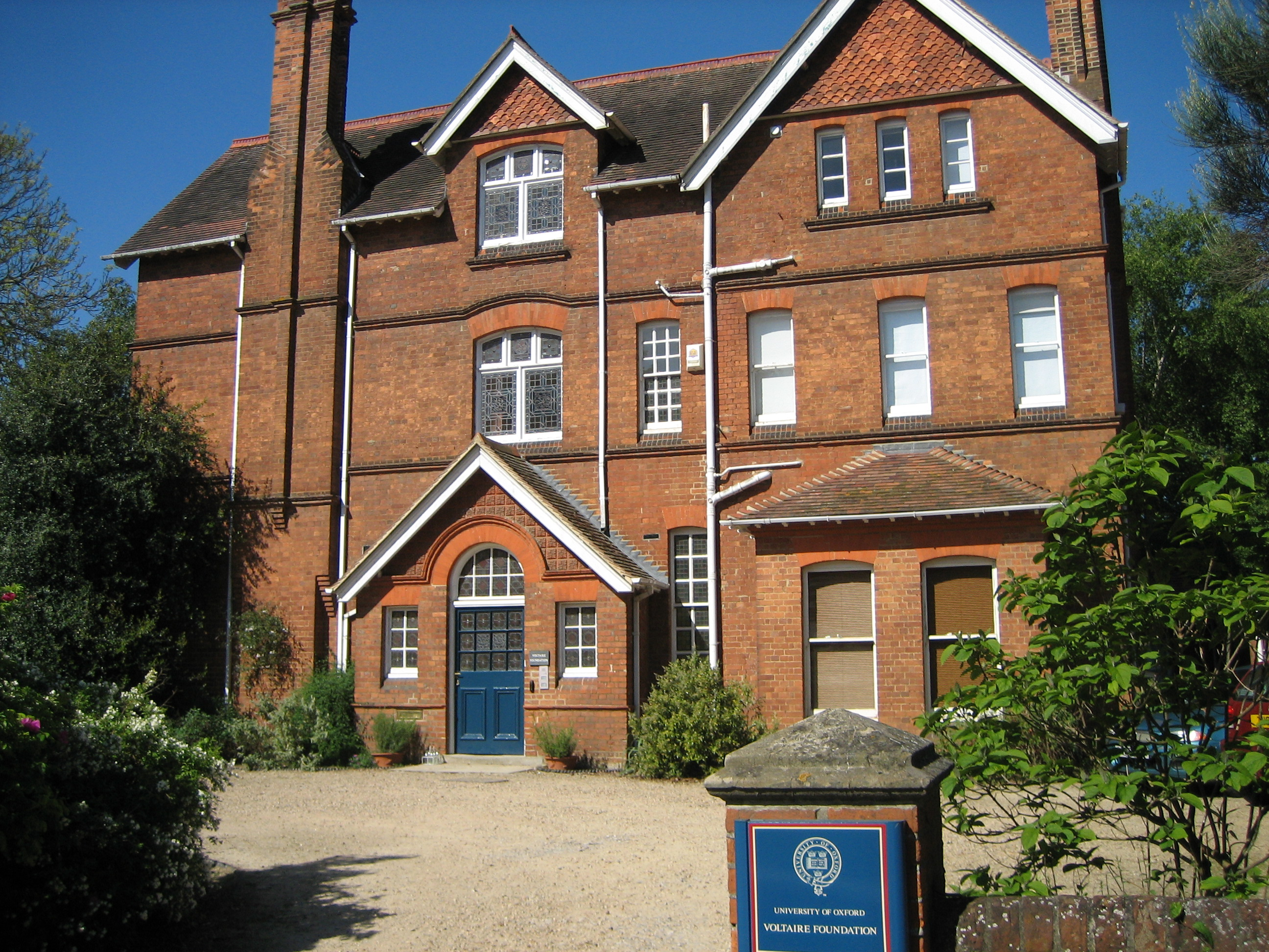 Exterior shot of 99 Banbury Road, Oxford: the home of the Voltaire Foundation, a department of the University of Oxford.